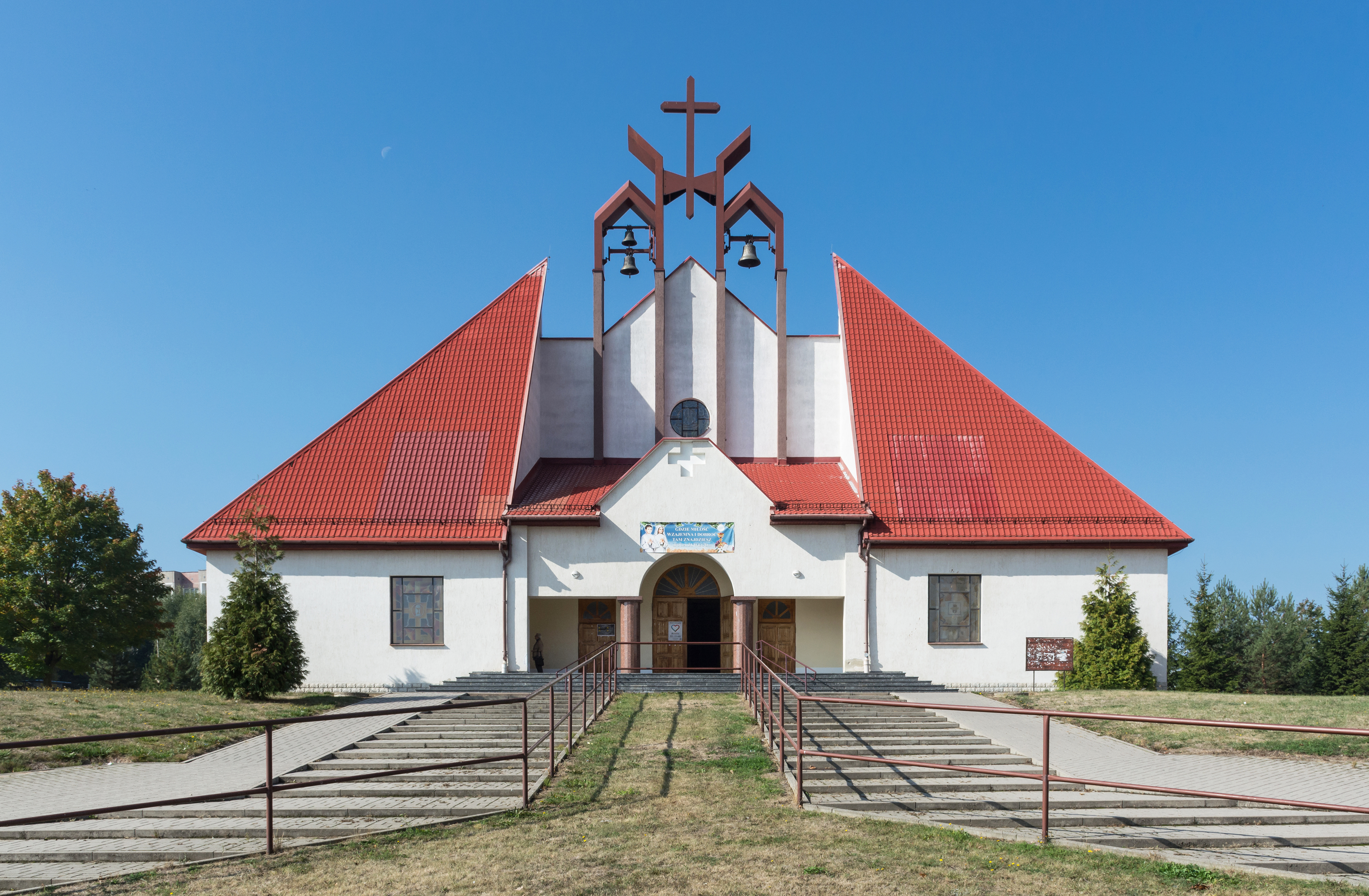 Church of the Exaltation of the Holy Cross in Kłodzko